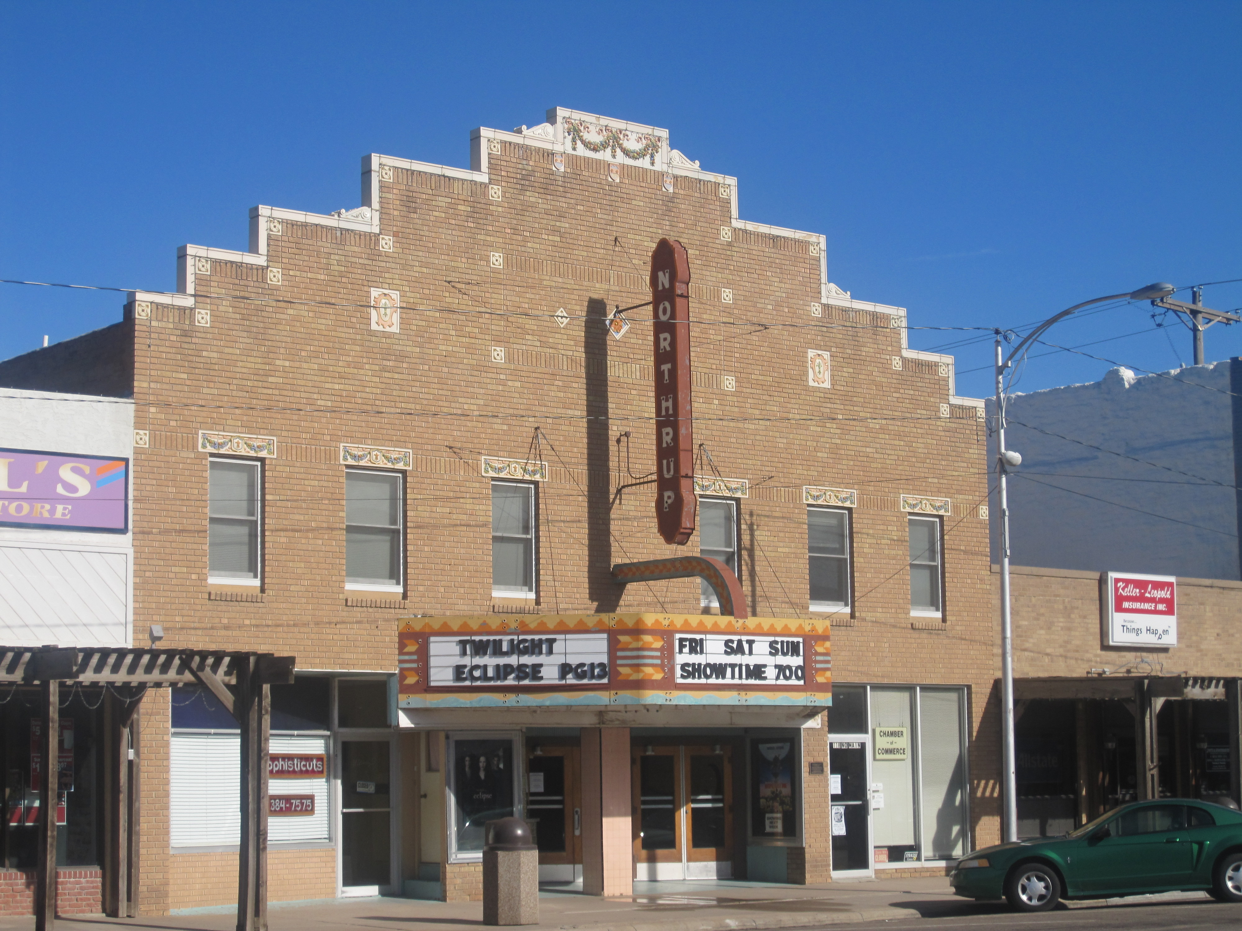 Northrup Theater, Syracuse, Kansas. On the National Register of Historic Places. On the marquee is The Twilight Saga: Eclipse